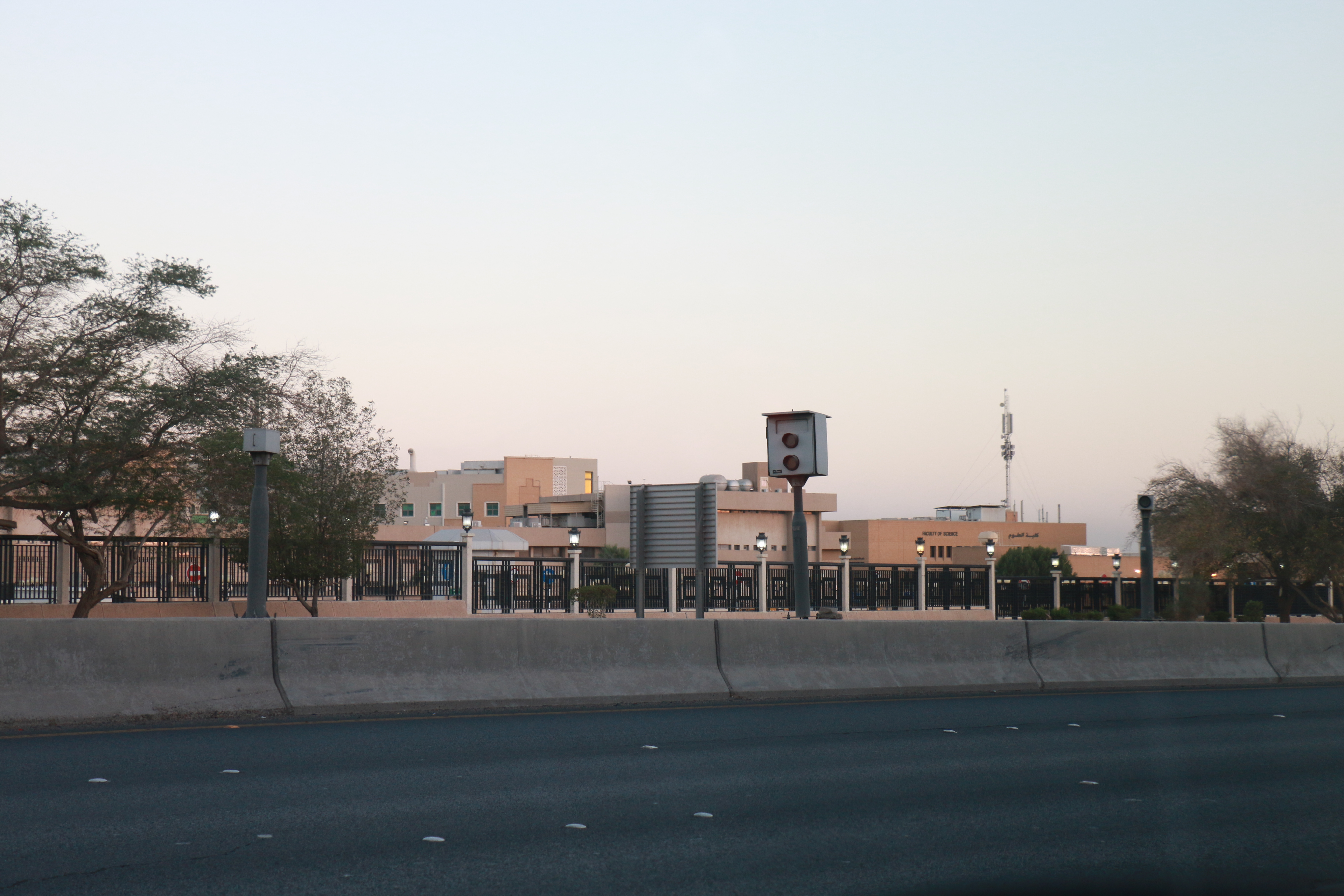 Speed Camera in Kuwait